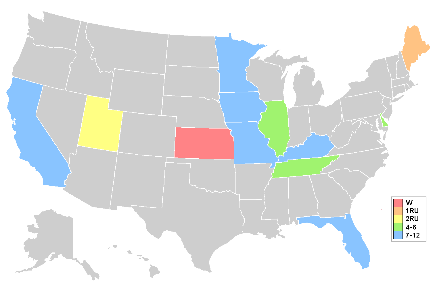 Map showing placements at the Miss Teen USA 1995 pageant. Key on graphic shows colour coding for break down of placements.